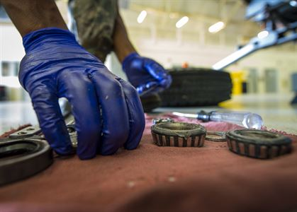 Airman Charles Cannon places thrust bearings on a rag after cleaning them of old grease. This photo was taken at Joint Air Base Charleston S.C.